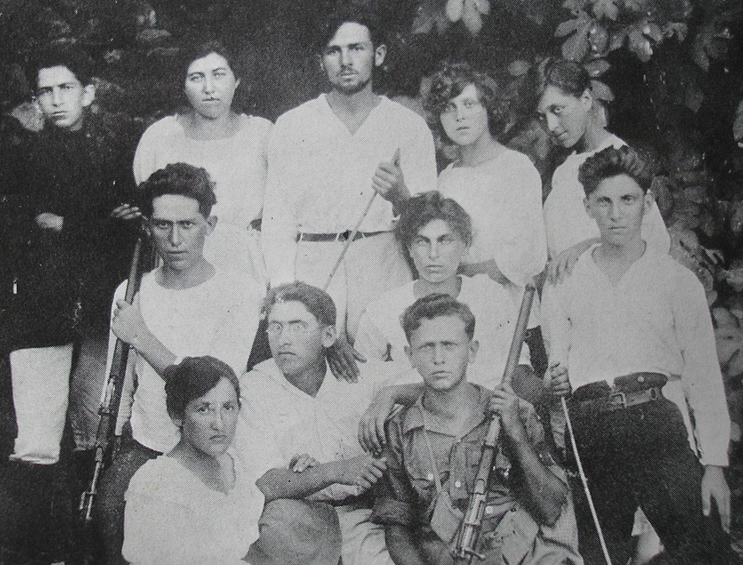 Abba Hushi - during the period while working near Rosh Pina